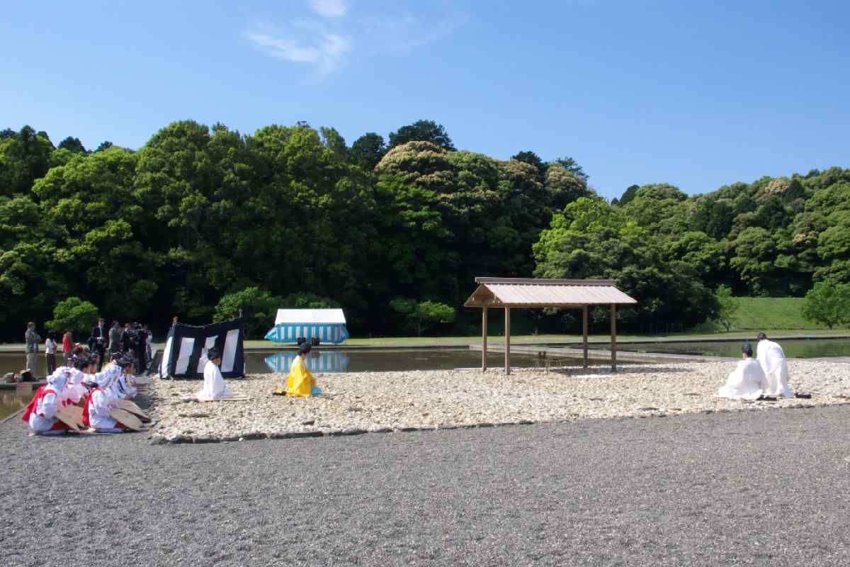 Shinden otaue hajime, rice planting at Jingu shinden